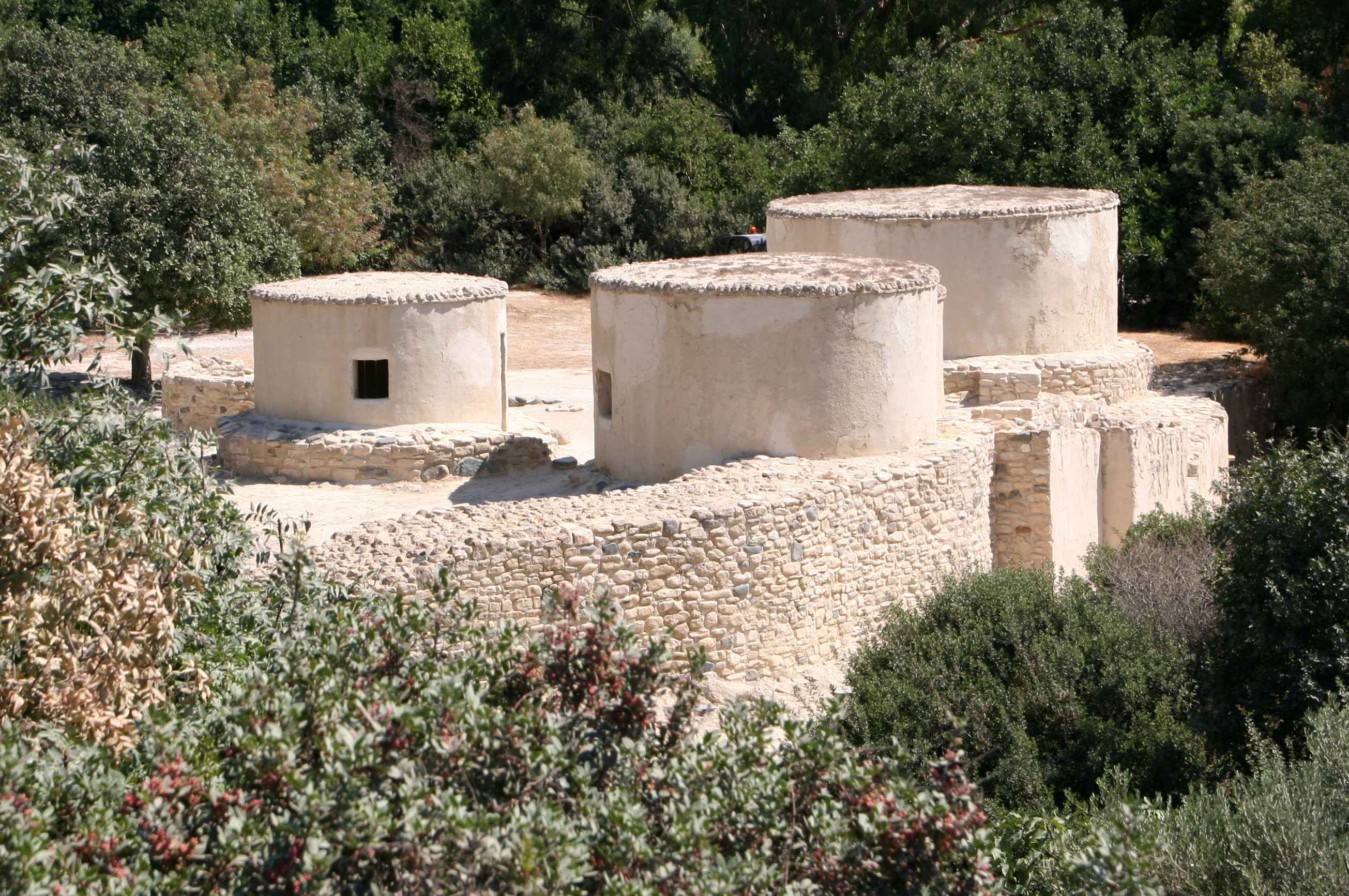 Reconstructed circular structures Khirokitia, between 7000 and 5800 BC